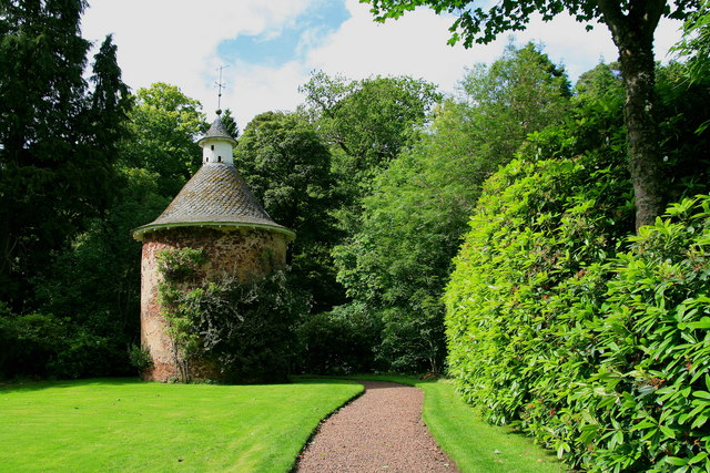 Longformacus House Doocot Early to mid 18th century circular red sandstone doocot with conical roof, surmounted by conical, timber drum with arched pigeon openings. It has been reported that there are 490 wooden nests inside. It is thought to be contemporary with the nearby Longformacus House